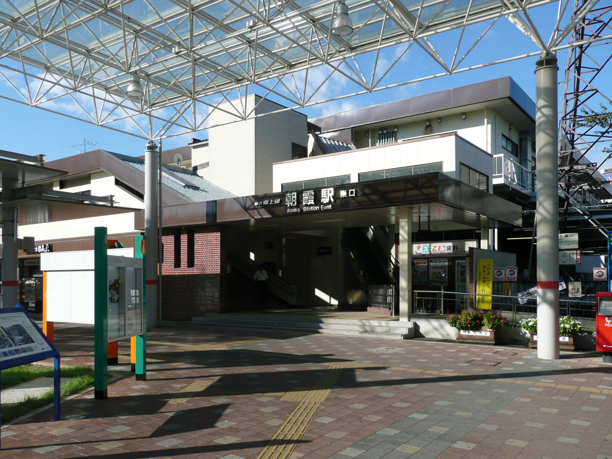 The east entrance to Asaka Station on the Tobu Tojo Line in Saitama Prefecture, Japan